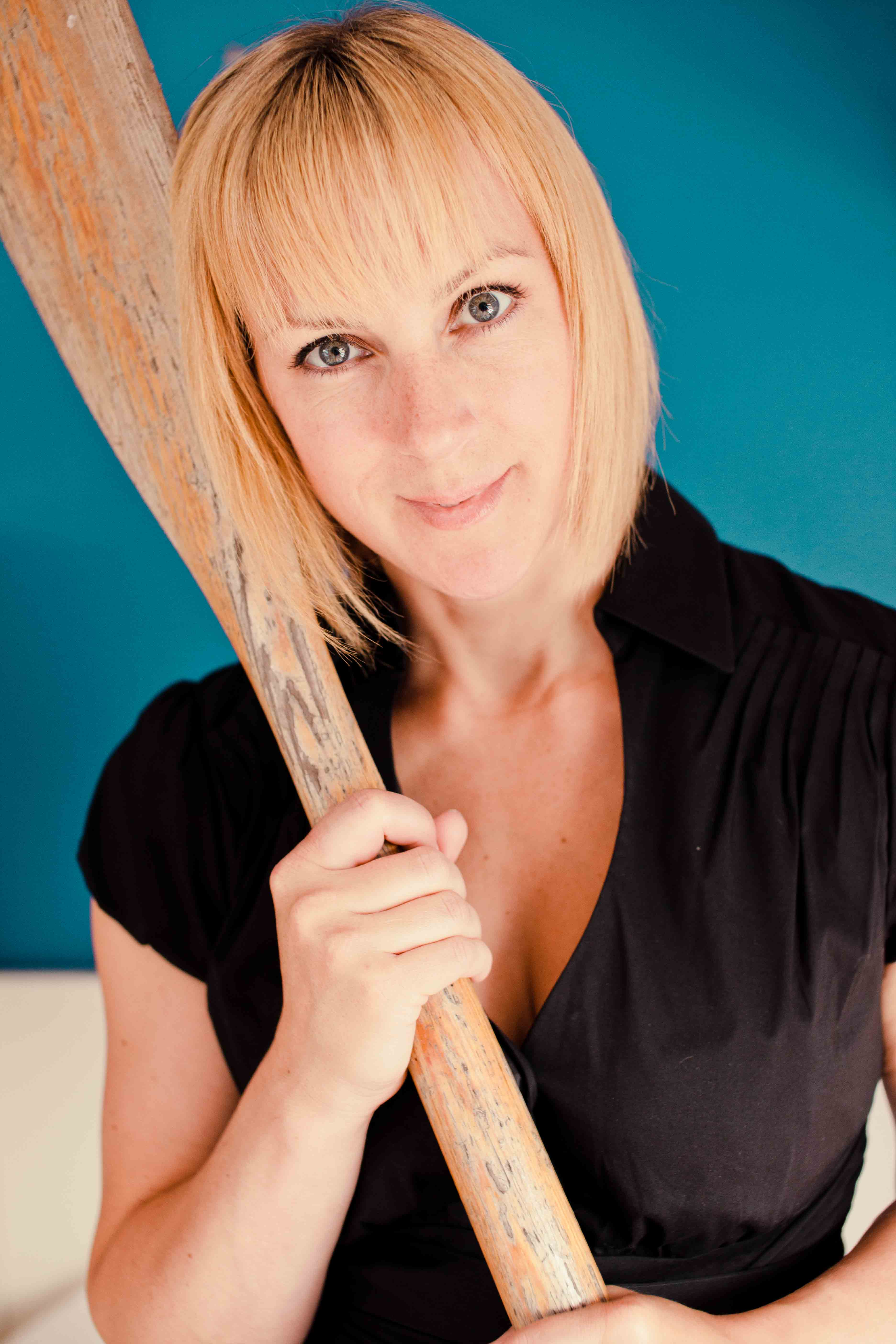 Portrait of Debra Searle MVO, MBE, by business partner Hayley Barnard. Debra is a solo Atlantic rower, motivational speaker, author and BBC presenter.